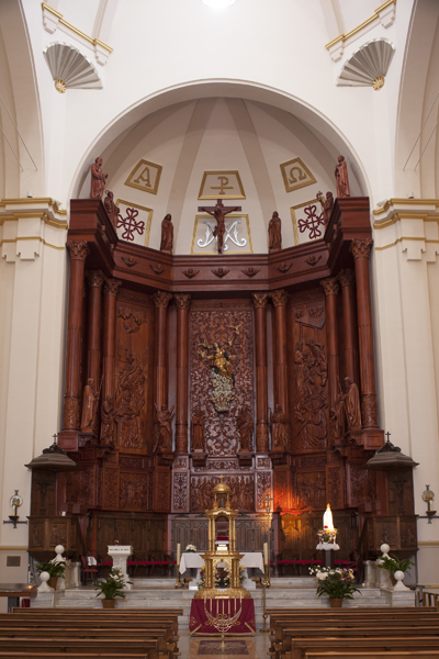 Ref: PM_100287_E_Manzanares.jpg; El retablo mayor; Manzanares; Templo de la Asunción; Castilla-la Mancha, Ciudad Real; Spain; Cultural heritage; Europe/Spain/Manzanares; photo: Paul M.R.Maeyaert; © Paul M.R. Maeyaert